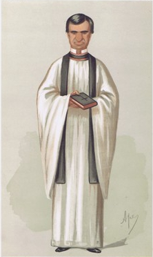 Caricature of The Rev Henry White MA. Caption read "Prayers".